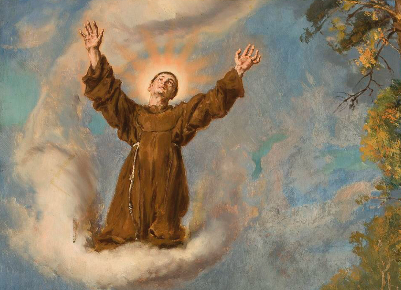 John from Dukla